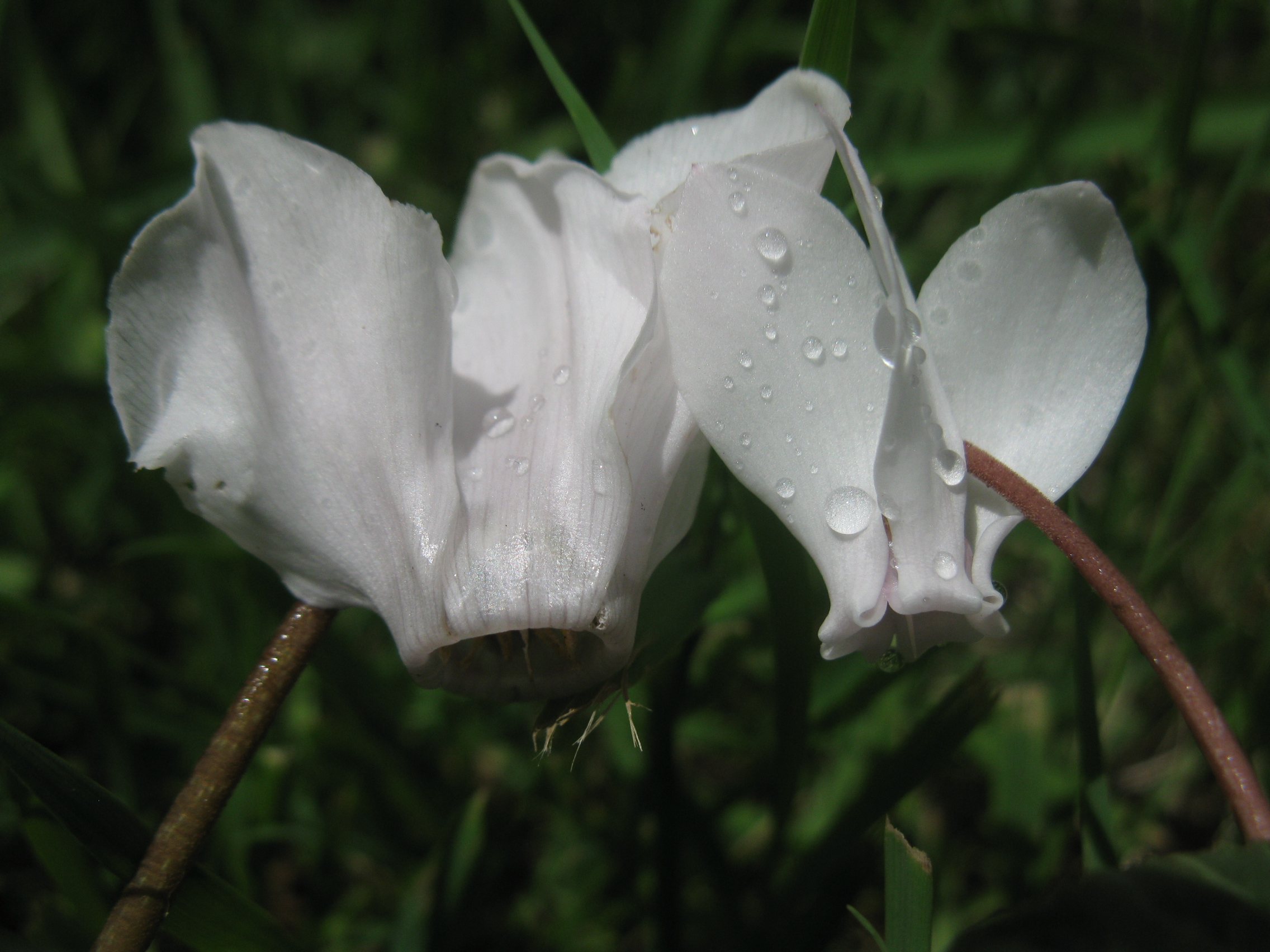 A cultivated variety of florist's cyclamen (Cyclamen persicum) vs. ivy-leaved cyclamen (Cyclamen hederifolium), showing auricles at bases of petals of latter species